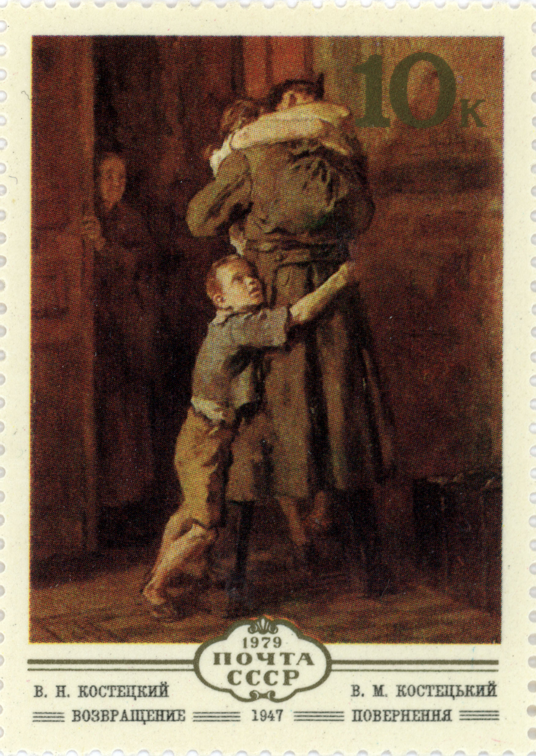 USSR postage stamp. 1979. V. N. Kostecky. Homecoming